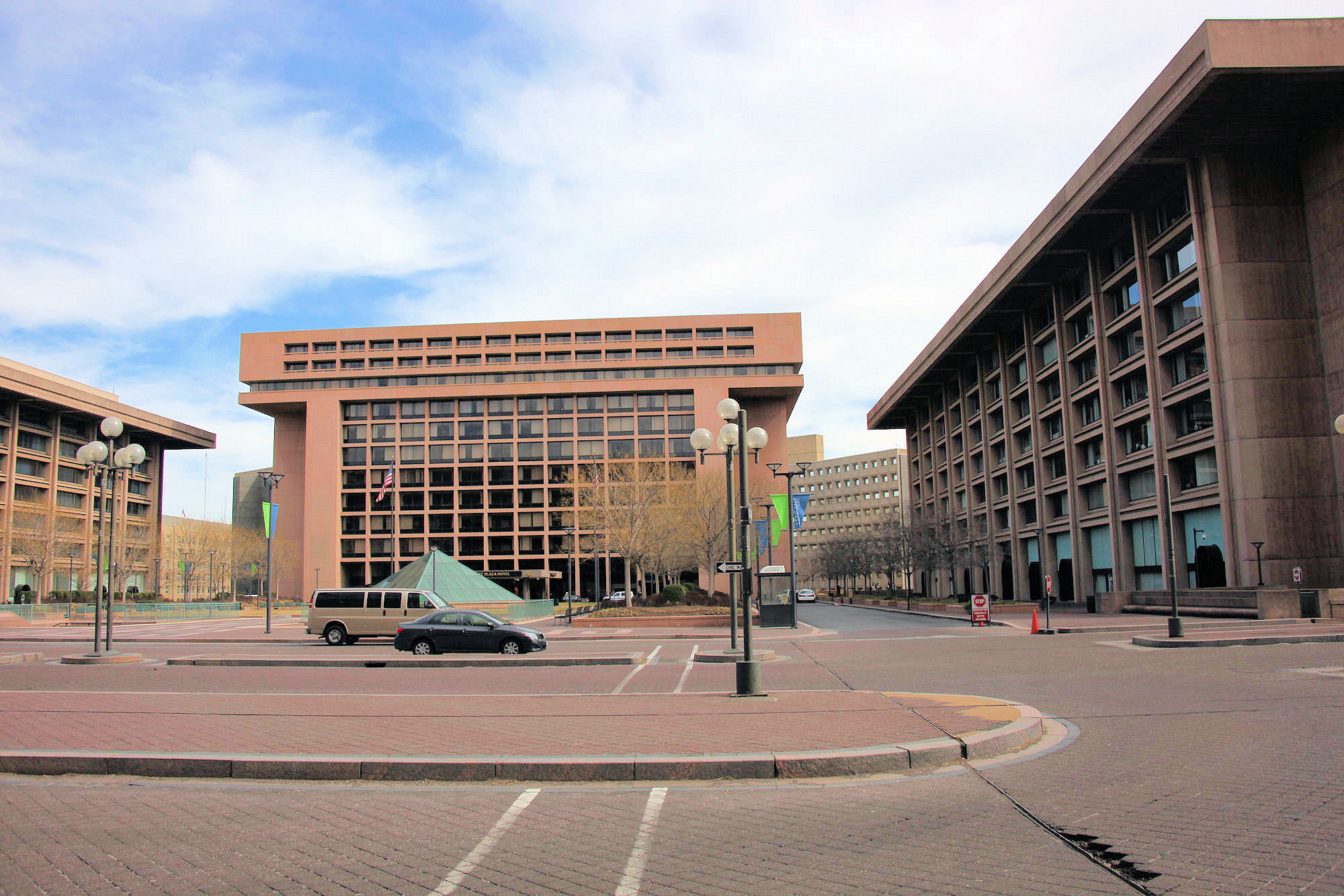 Looking east across L'Enfant Plaza in Washington, D.C., in the United States. L'Enfant Plaza and L'Enfant Promenade were designed by I. M. Pei for developer William Zeckendorf in the early 1960s. Pei's partner, Araldo Cossutta, designed the North Building and South Building, two office buildings which border the plaza. These were constructed in the late 1960s. Vlastimil Koubek designed the L'Enfant Plaza Hotel, which was built in 1971. The hotel is in the center of this image. The North Building is to the left, the South Building is to the right. L'Enfant Promenade, which consists of a street and a pedestrian median, is at bottom.